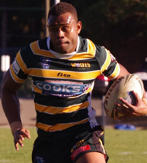 Eto Nabuli